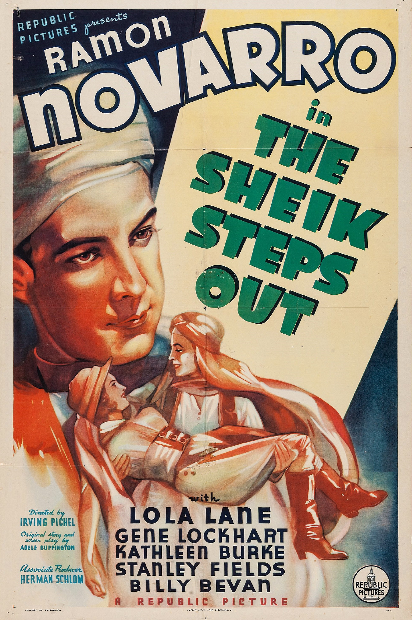 Poster for the American musical film The Sheik Steps Out (1937). There are no copyright marks. At bottom left is Country of origin USA, at middle is Morgan Litho Corp. Cleveland, O.-they printed the poster, and at bottom right is 1191.